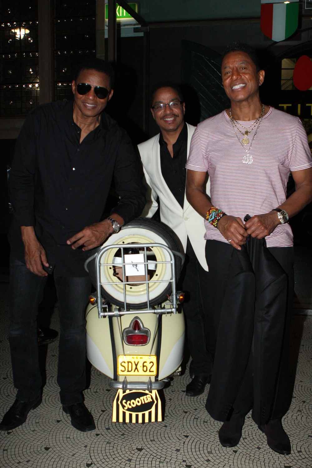 The Jacksons